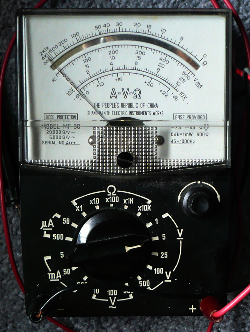 Shanghai multimeter made in the 60s.